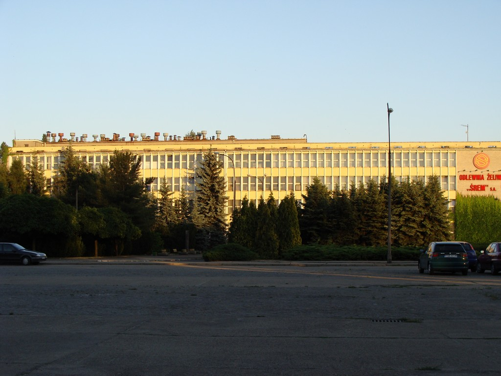 Śrem, building of Church of the Holy Heart of Jesus (former building of cast iron foundry).